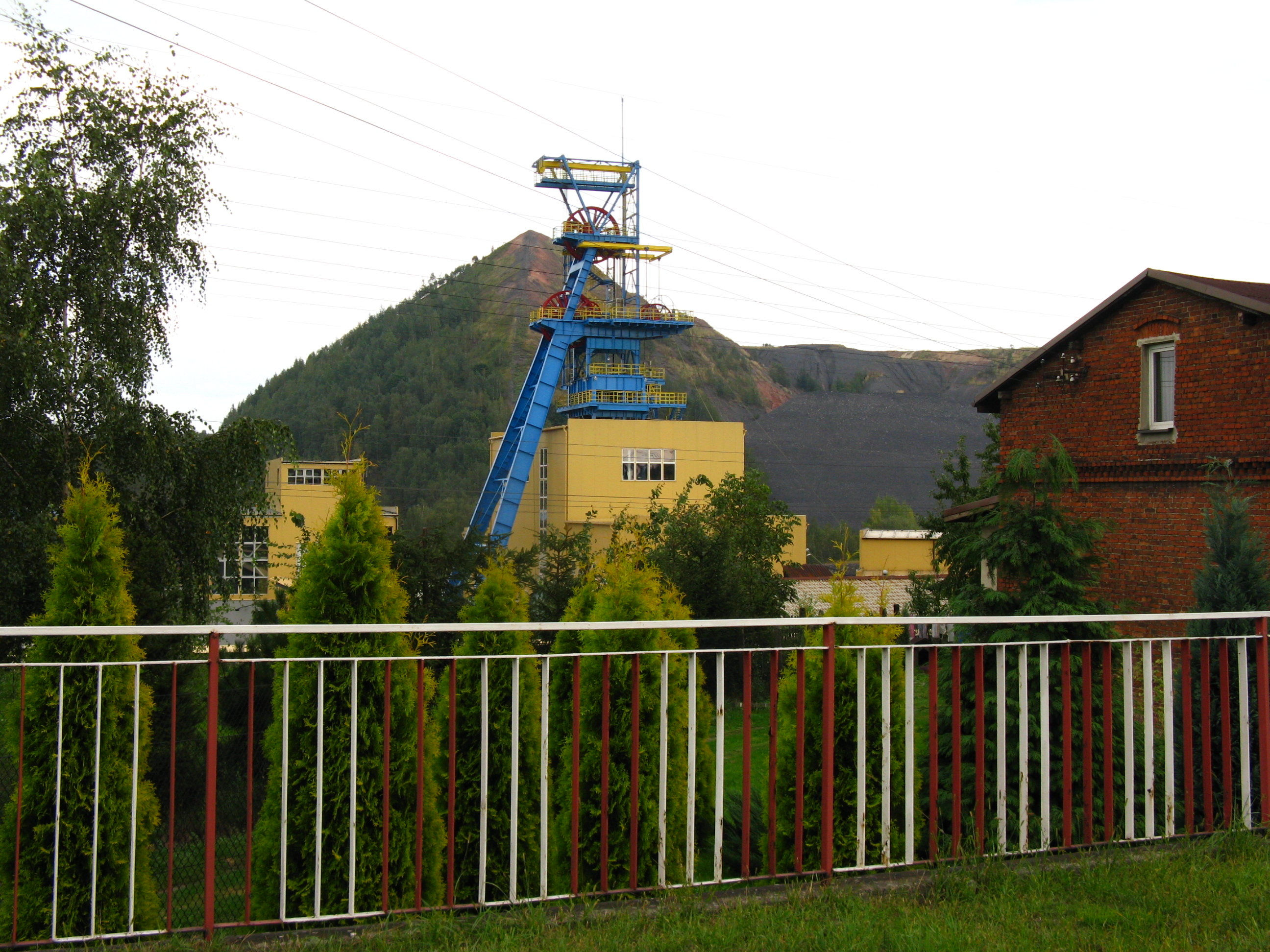 Slag heap in Rydułtowy, Silesia, Poland